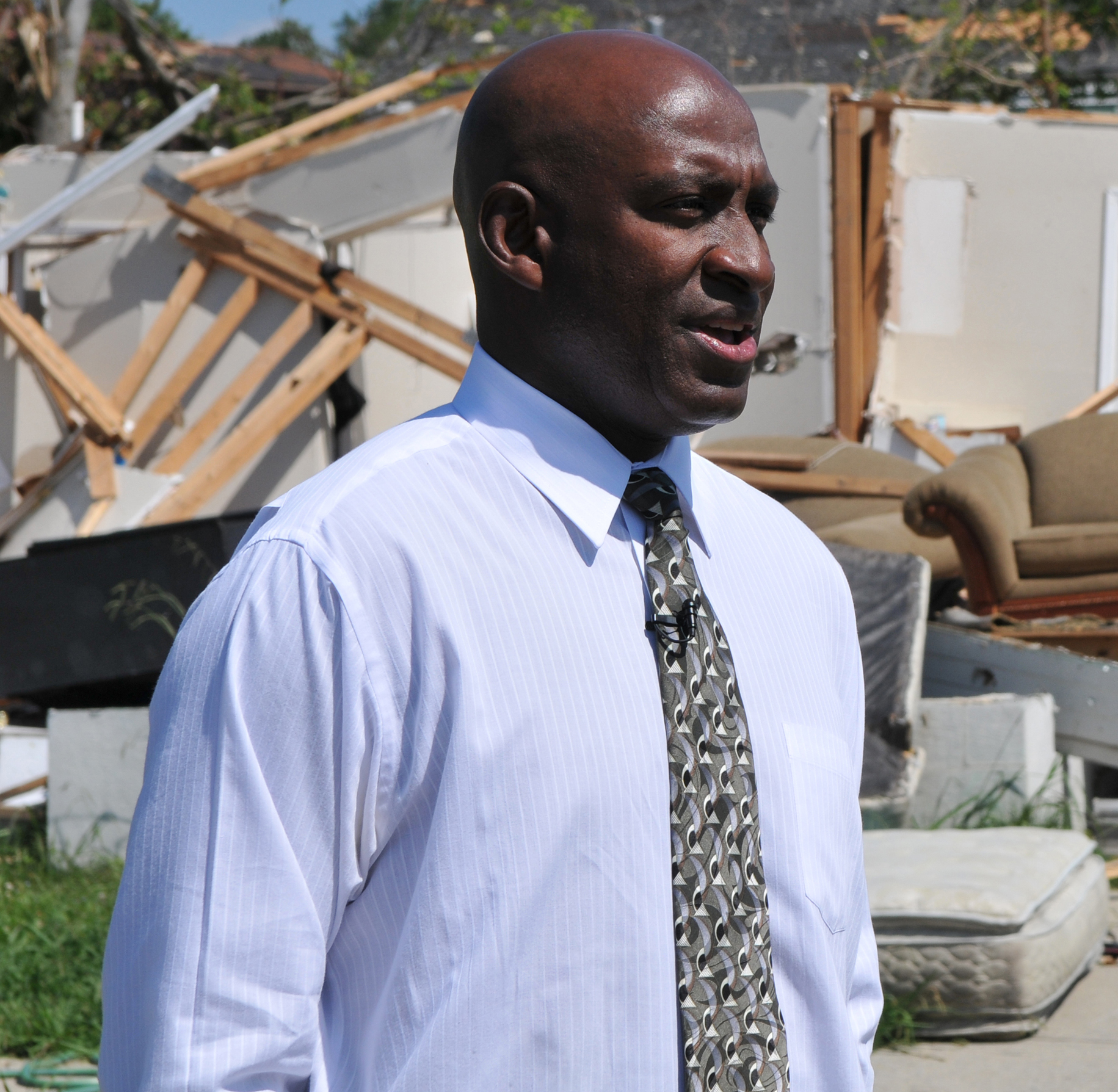 Pratt City, Al., May 18 2011 -- Former NFL Player Joe Cribbs makes a Public Service Announcement for FEMA. Local atheletes have partnered with FEMA and Alabama Emergency Management to help spread the word about registration for disaster assistance and hurricane preparedness. FEMA photo/Tim Burkitt FEMA photo/Tim Burkitt